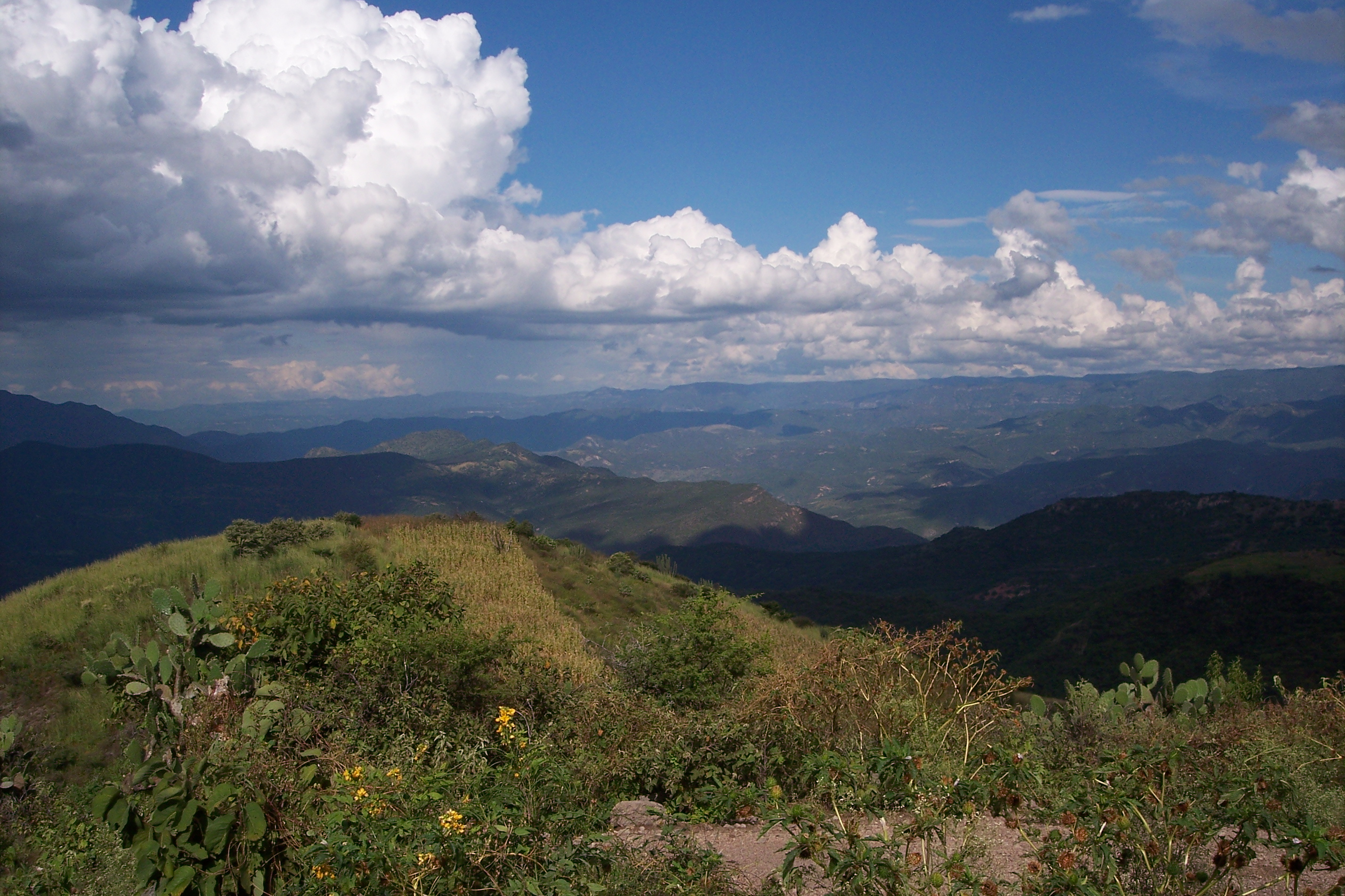 de la Sierra Madre) See where this picture was taken." ?